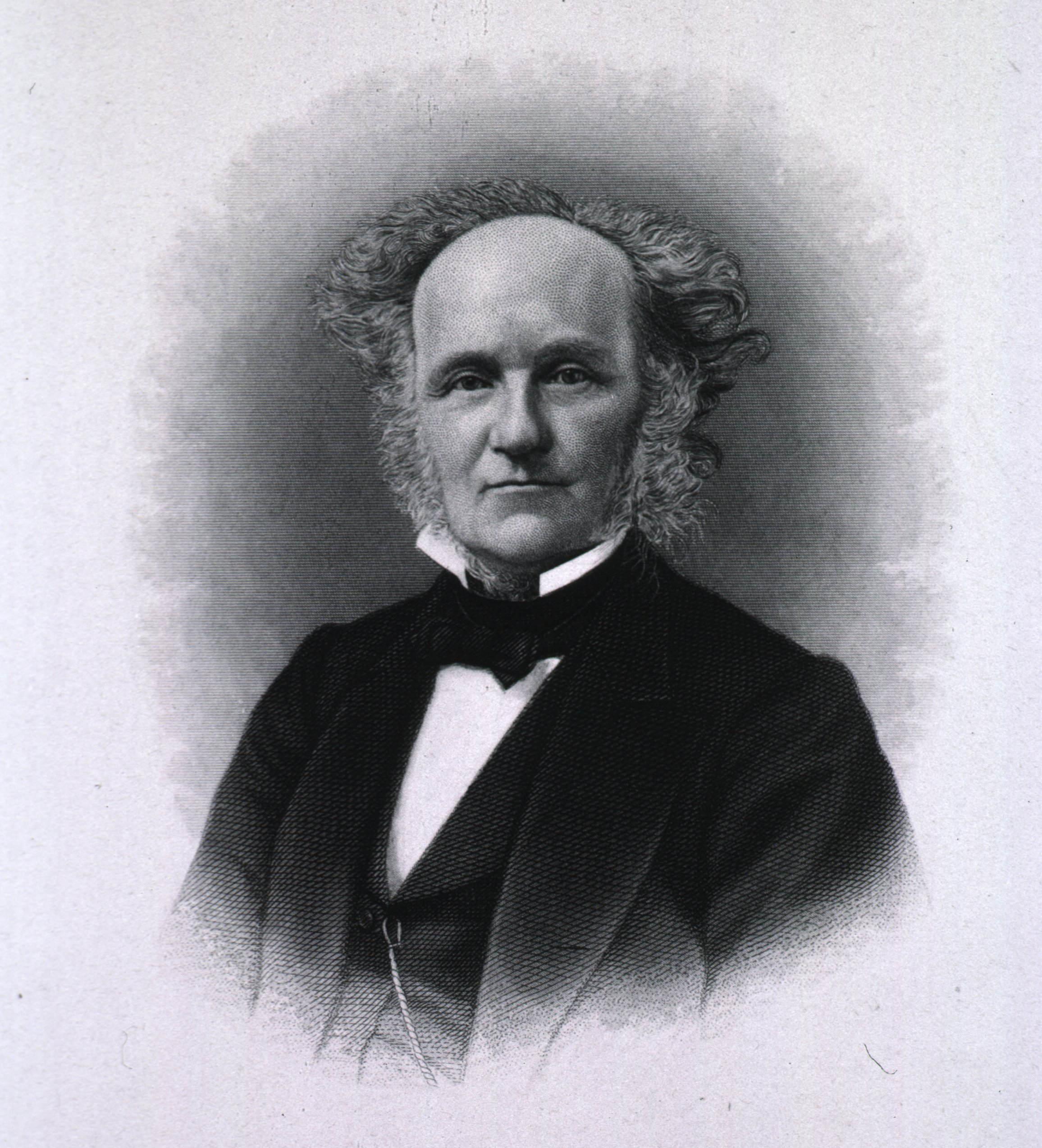 David Humphreys Storer (1804—1891)